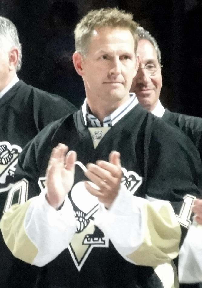 Gary Roberts during a pregame ceremony for the final regular season game at Mellon Arena, April 8, 2010.